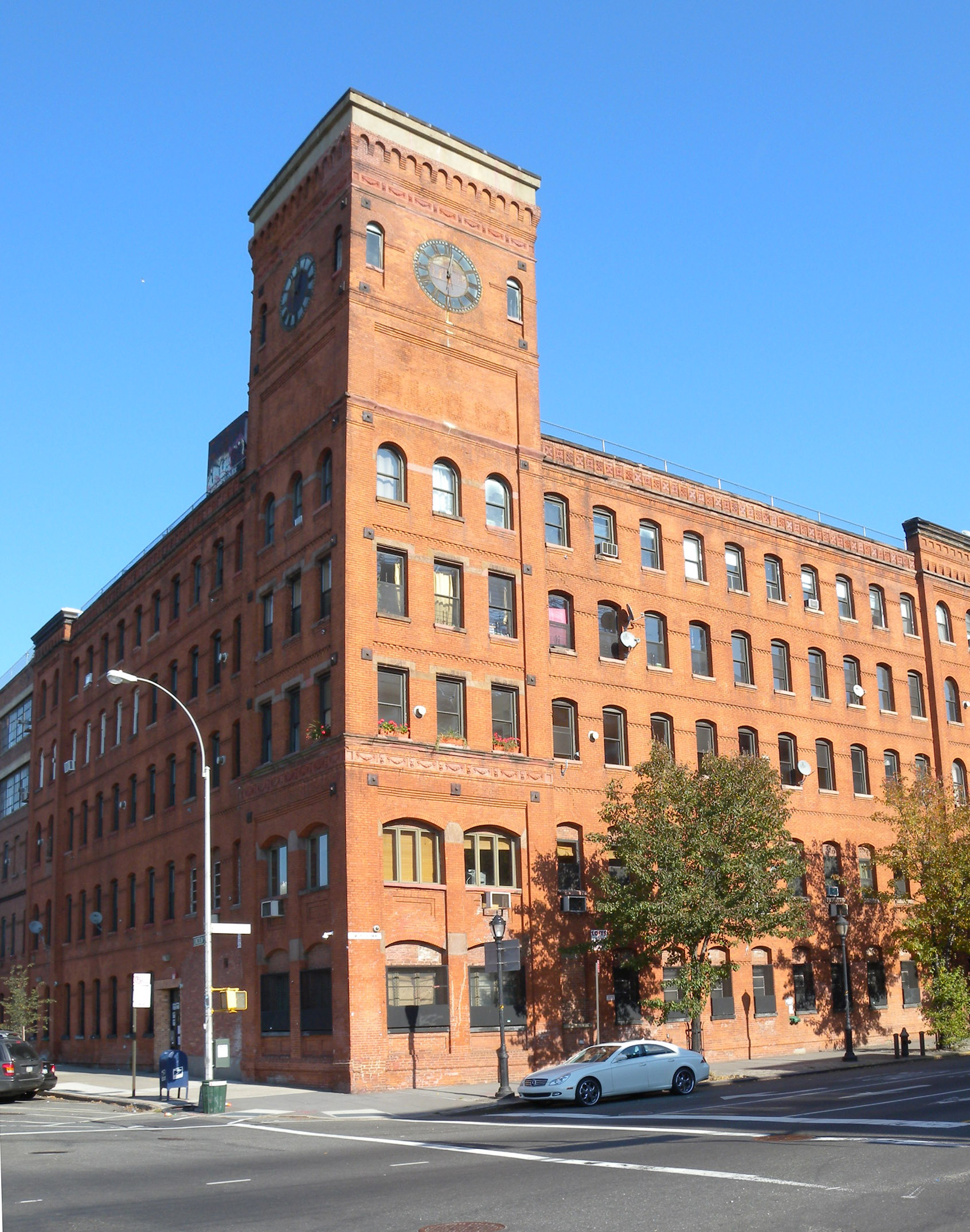 Looking northeast across Bruckner Boulevard and Lincoln Avenue at a warehouse, originally a piano factory, in the South Bronx being converted to residential use on a sunny November midday. EXIF says September due to photographer's error. ZIP 10054.